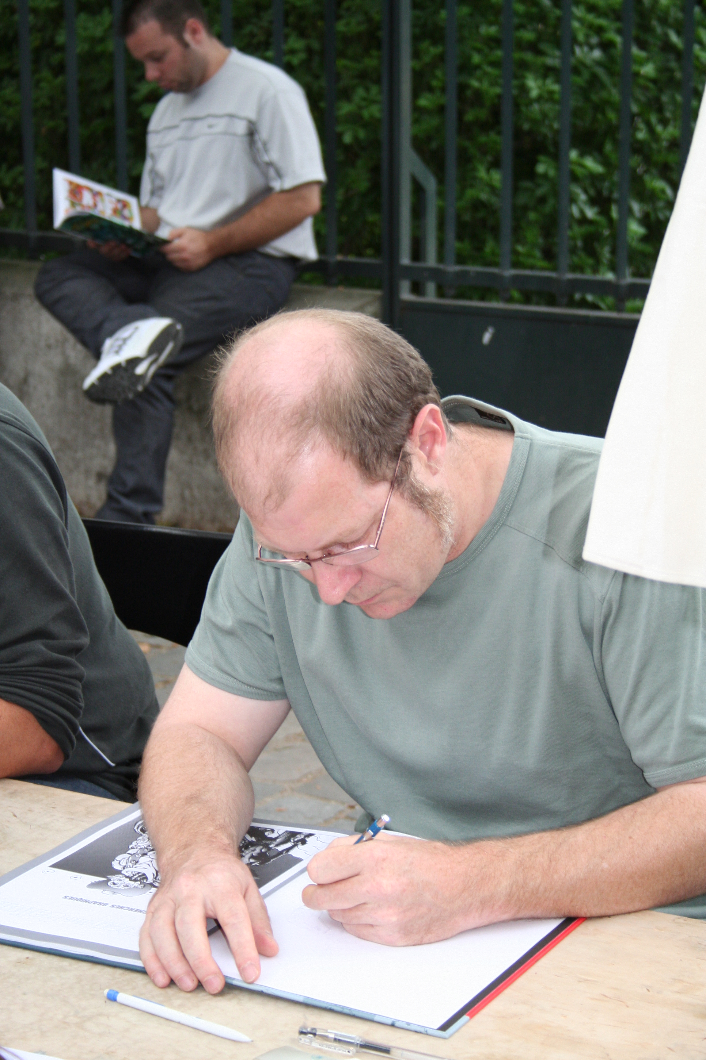 Autograph session with Gess at Delcourt festival 2006 (Paris, France).